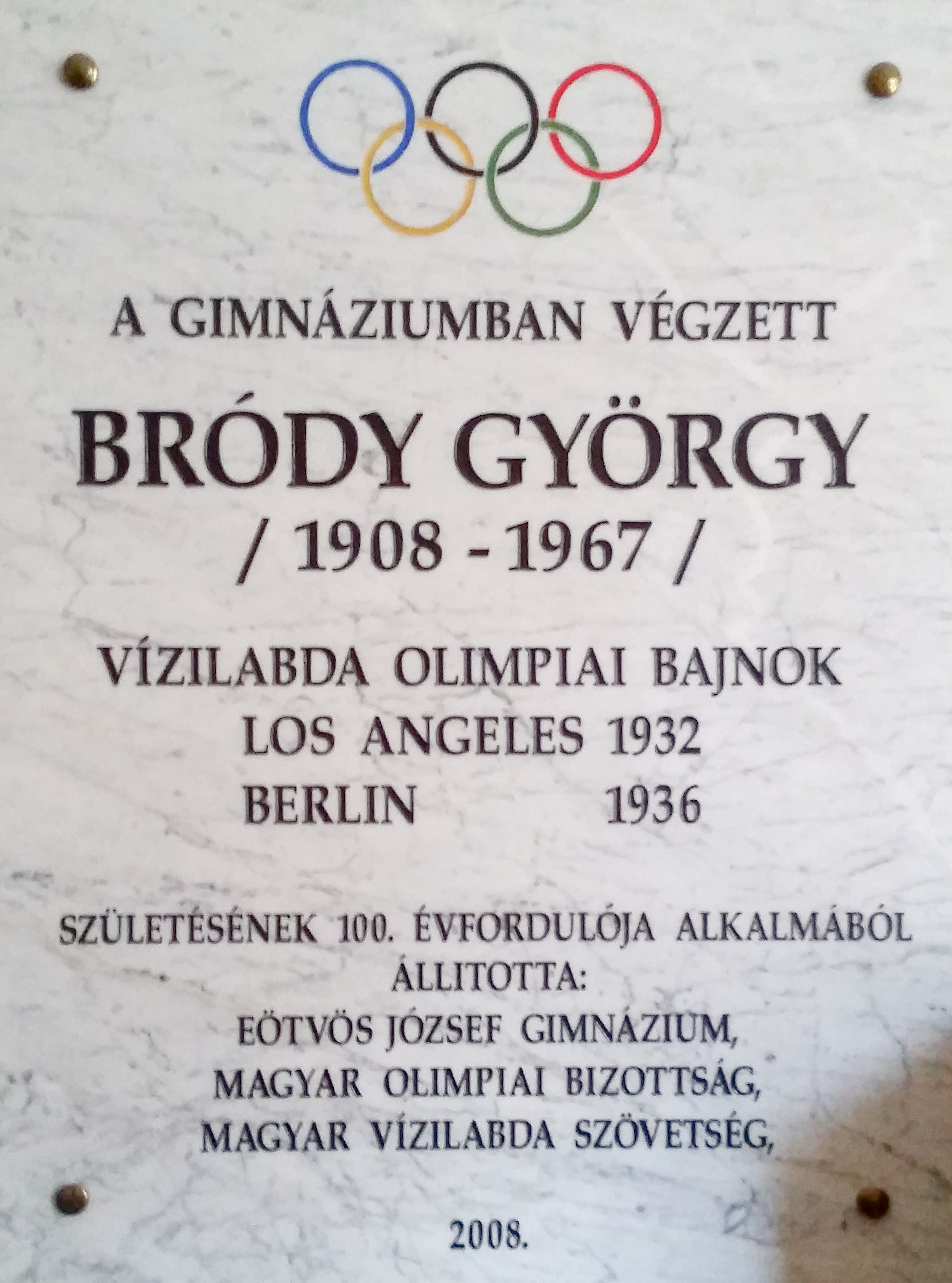 Comemmorative plaque to György Bródy in the Eötvös József Gimnázium (high school) in Budapest